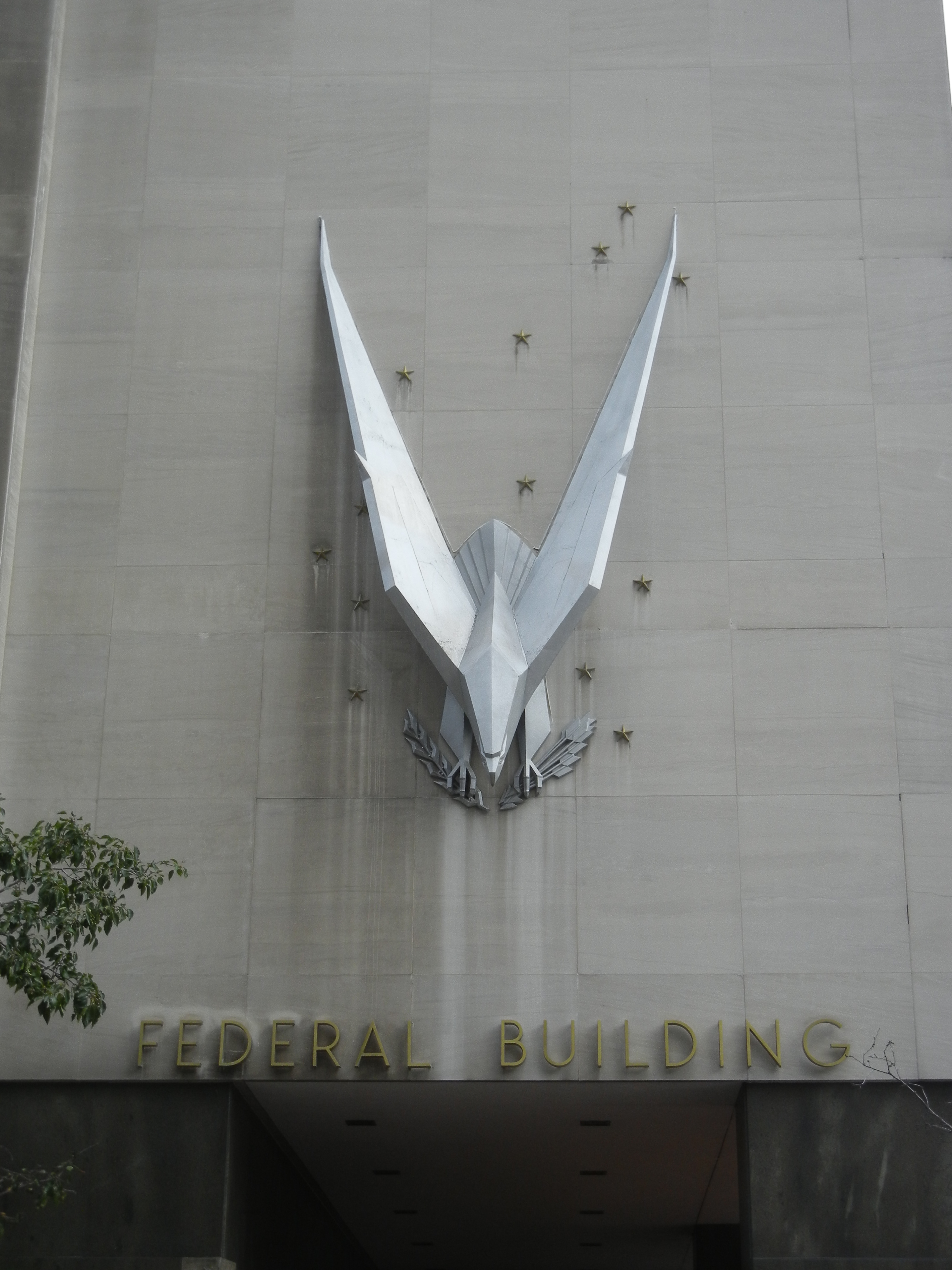 American Eagle by Marshall Fredericks on the Peck Federal Building, Cincinnati, Ohio